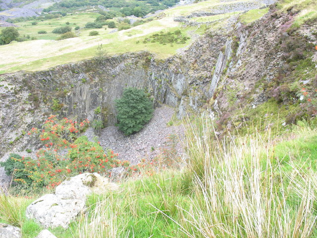 Bwlch-y-groes Quarry. A deep pit quarry next to the green lane. A ruined barracks lies to the west of the pit.